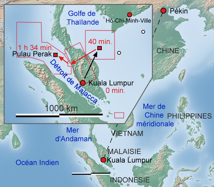 Map of disappearance of MH370 in French